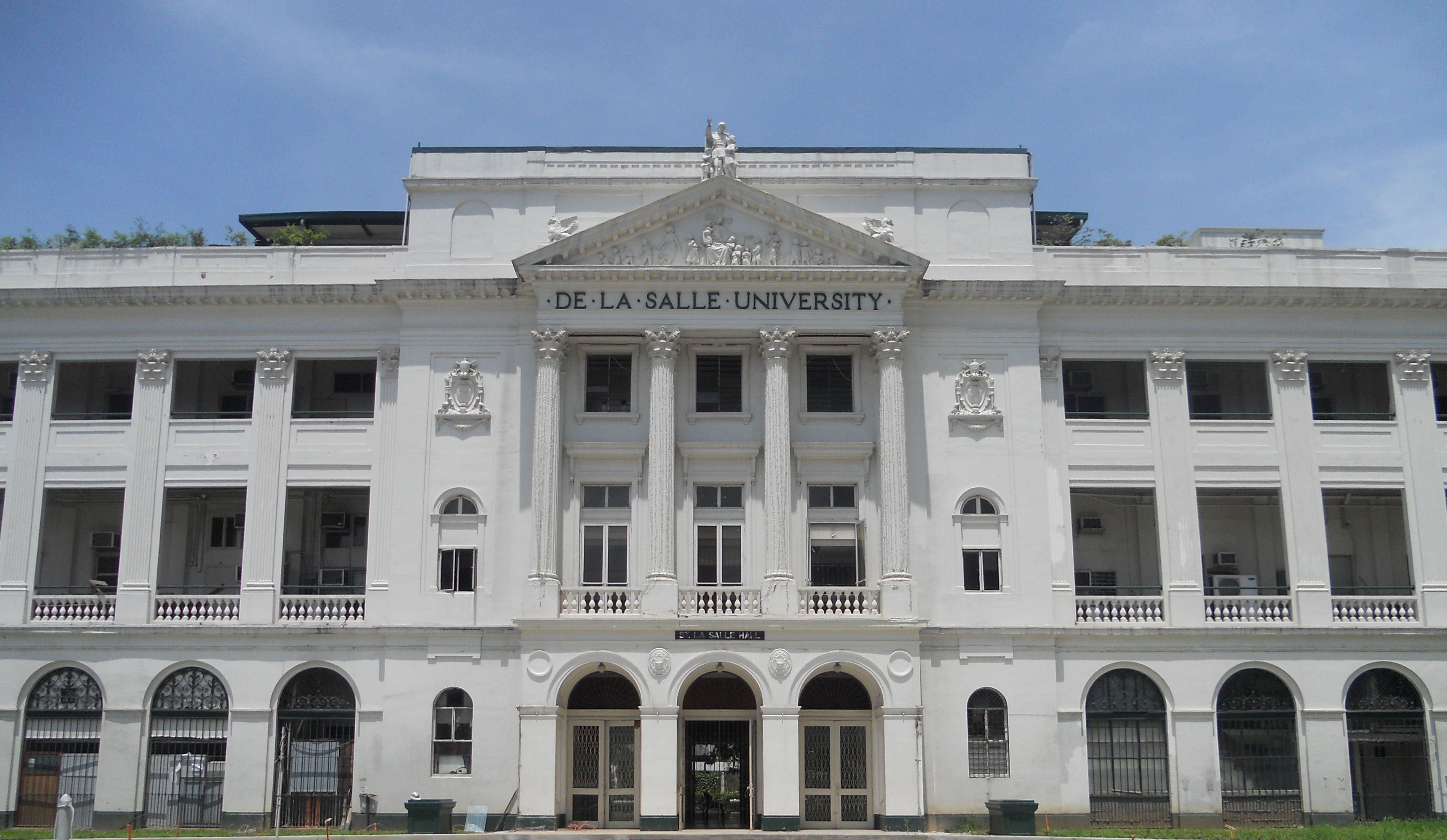 DLSU La Salle Hall front